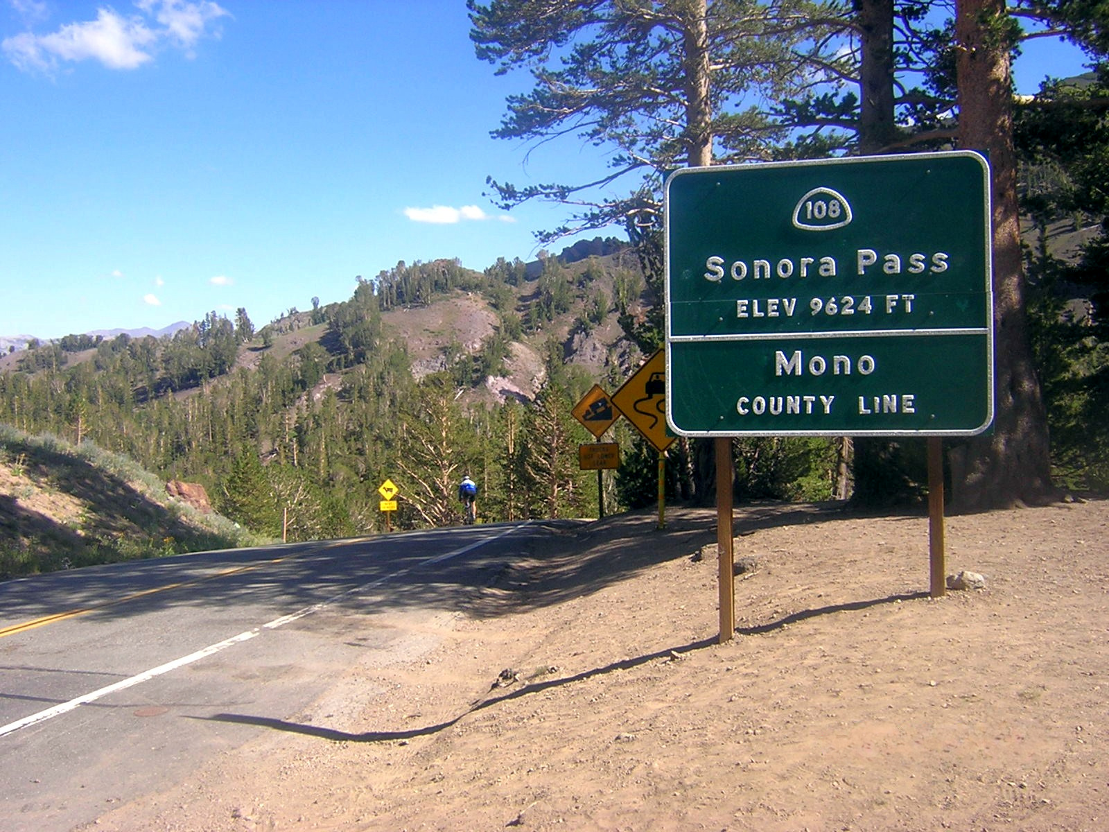 Sonora Pass looking east into Mono County.